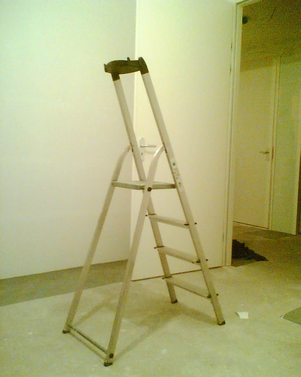 Household stairs